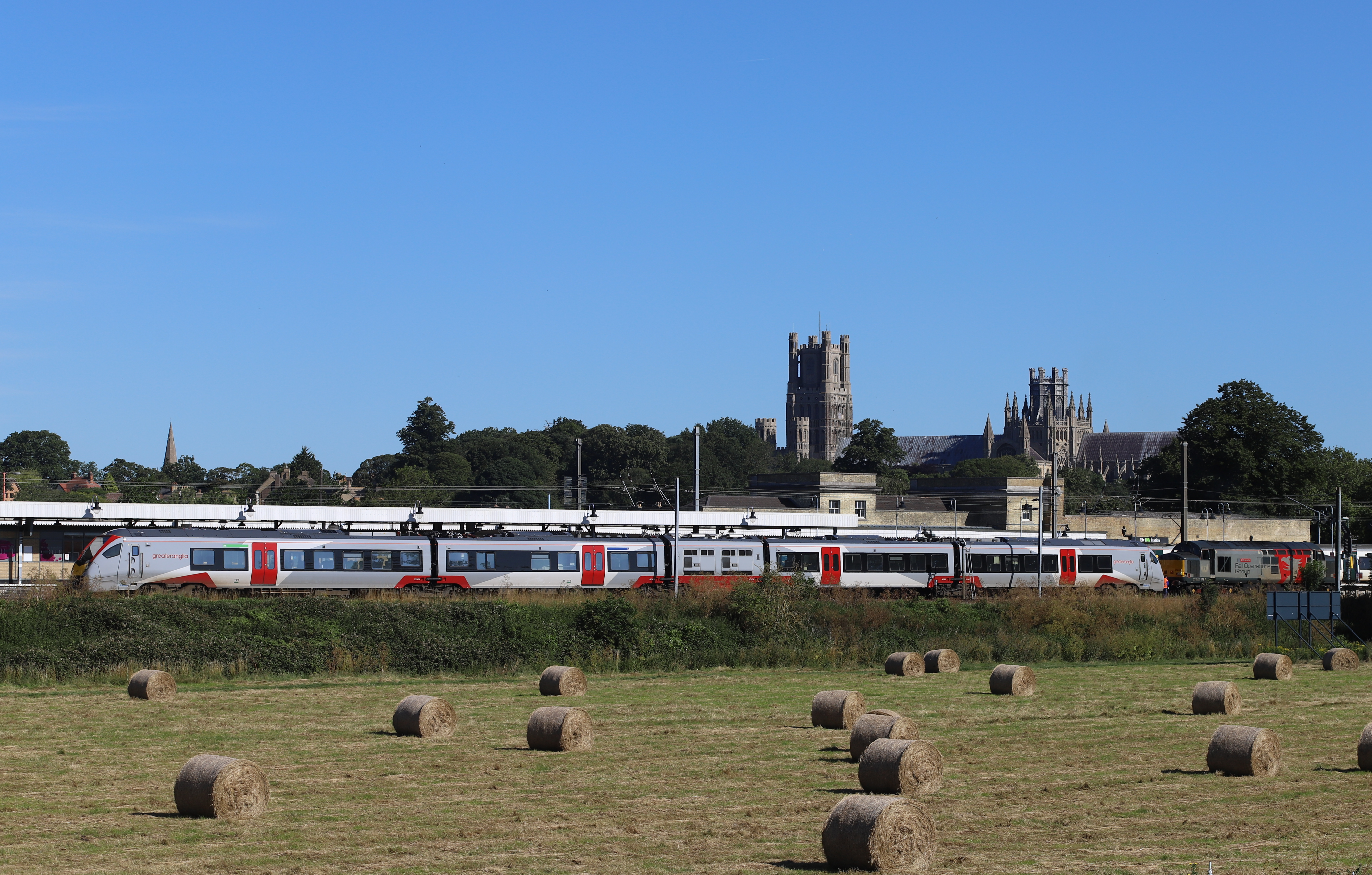 British Rail Class 755 Train operated by Greater Anglia at Ely Railway Station with Ely Cathedral in the background